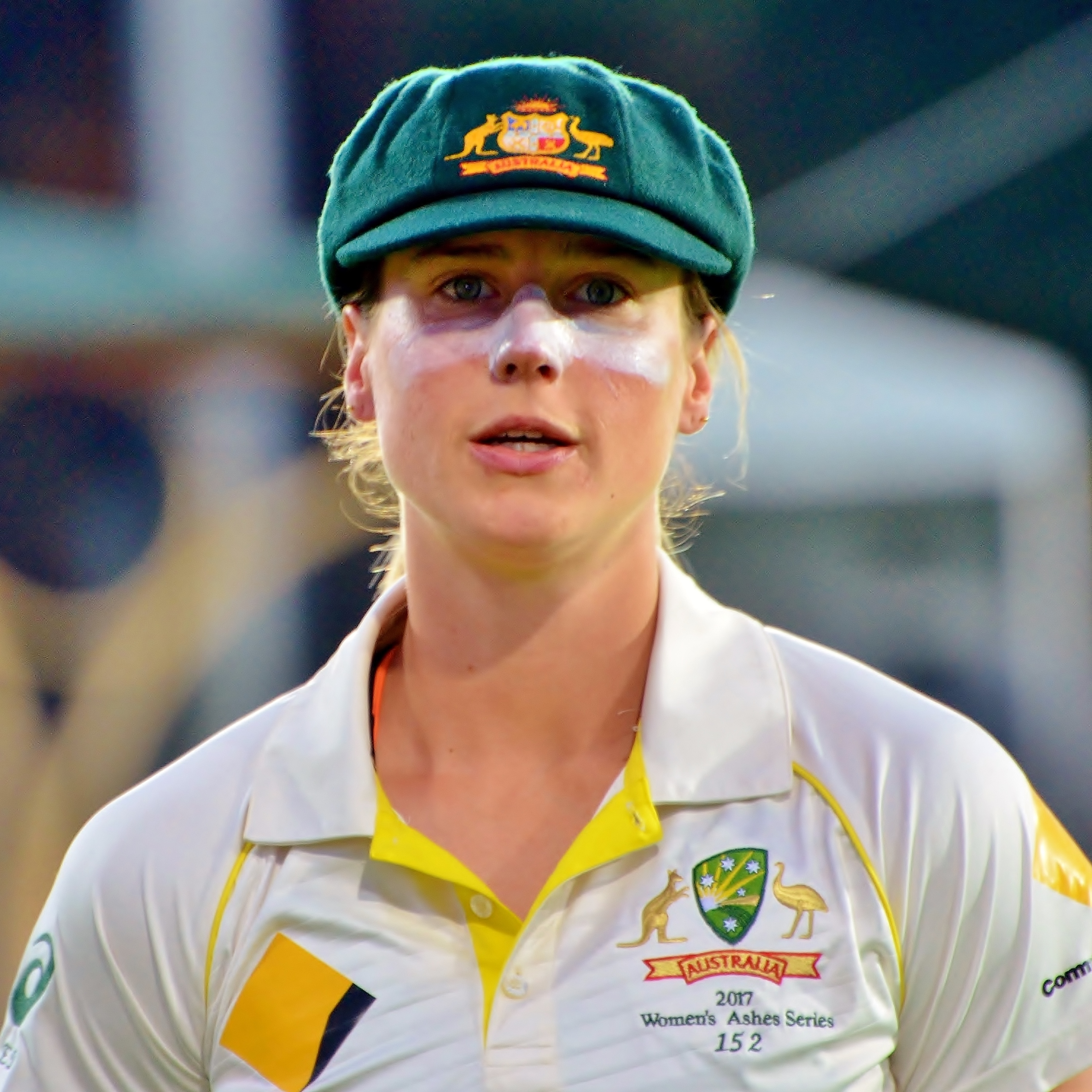 Ellyse Perry is looking tired after a long day in the field on the first day of the 2017–18 Women's Ashes Test at North Sydney Oval. Shortly after this photo was taken, she simply lost the plot following her freakish caught and bowled dismissal of England's Sarah Taylor ...